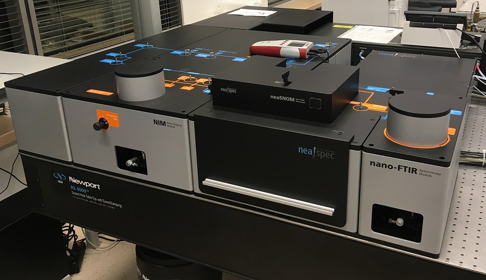 The nano-FTIR microscope by neaspec GmbH at the University of Warsaw in Poland.